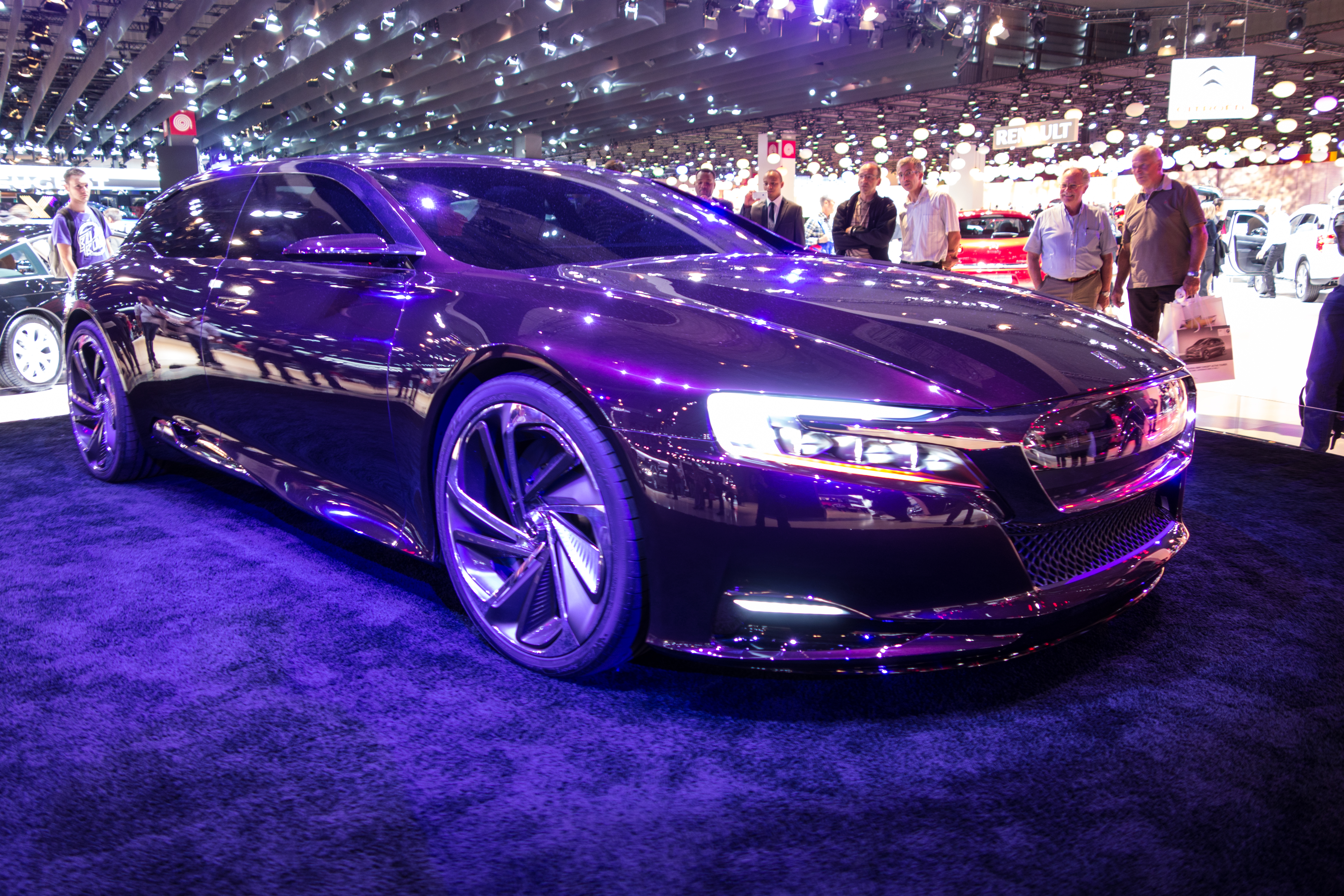 Mondial De L'automobile Paris 2012 | Paris Motor Show 2012